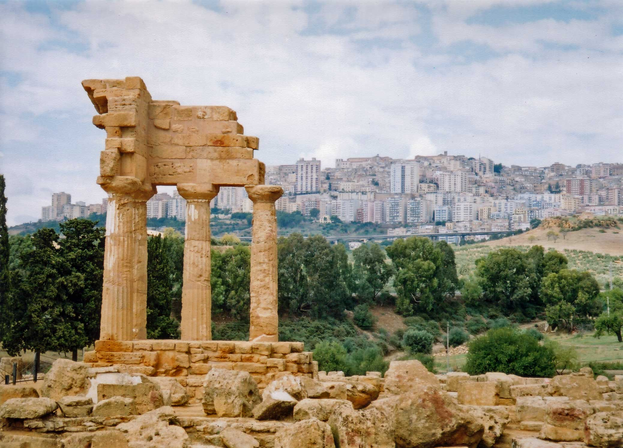 The Temple of Gemini and the modern city in the background.